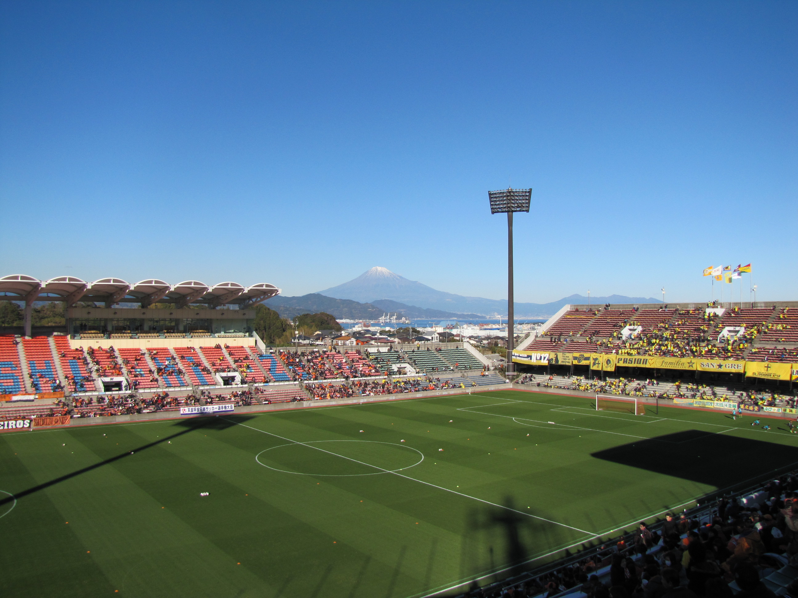 Nihondaira Stadium, the home of Shimizu S-Pulse, looking towards Mt. Fuji across Suruga Bay.